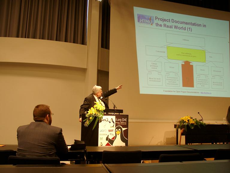 I made it myself